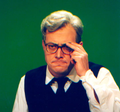 Corrado Guzzanti impersonating Giulio Tremonti